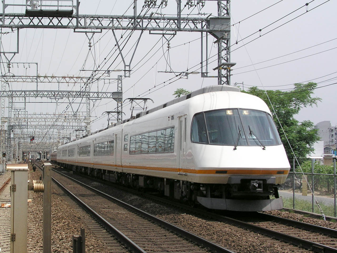 Kintetsu type 21000